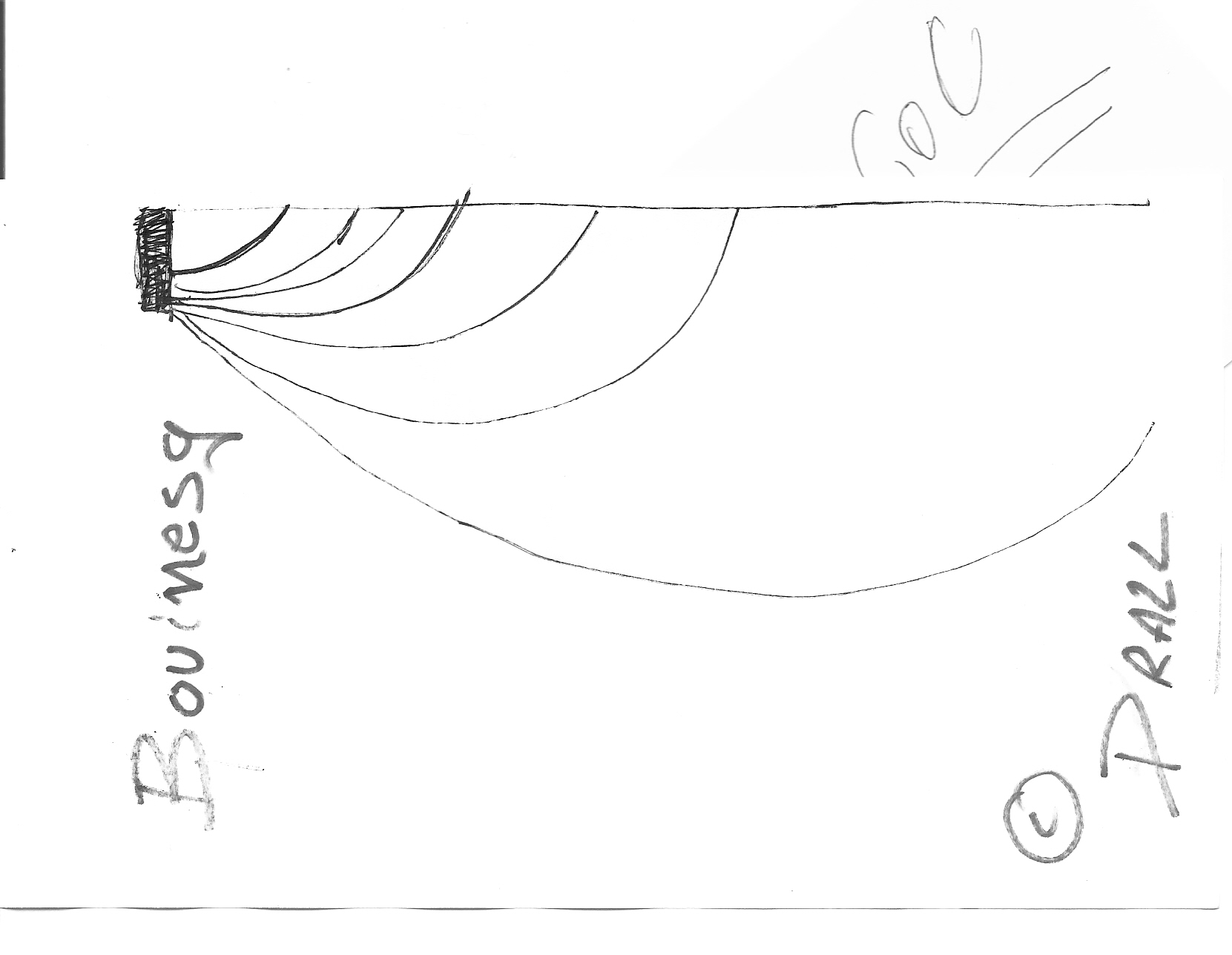 Bosinesseq digram of soil stresses